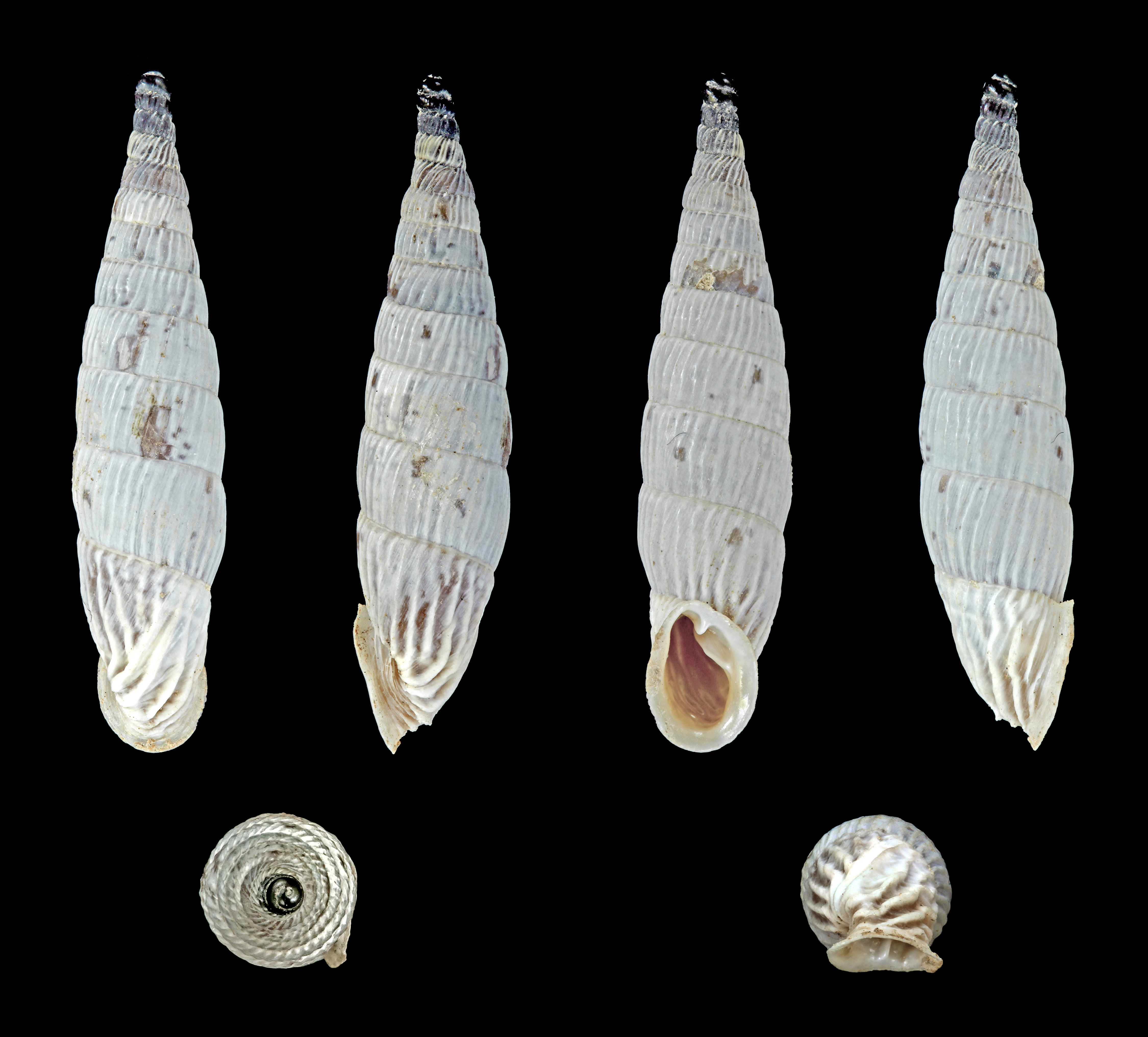 Albinaria corrugata corrugata forma inflata (Olivier, 1801) ; Length 2.0 cm; Originating from a wall of the ruins of Knossos, Crete, Greece; Shell of own collection, therefore not geocoded. Dorsal, lateral (right side), ventral, lateral (left side), apex (diam 1 mm), and front view. Info Albinaria corrugata corrugata forma inflata was originally described by G. A. Olivier in 1801 as a discrete species, Bulimus inflatus. Today it is considered to belong to the Albinaria corrugata species complex.